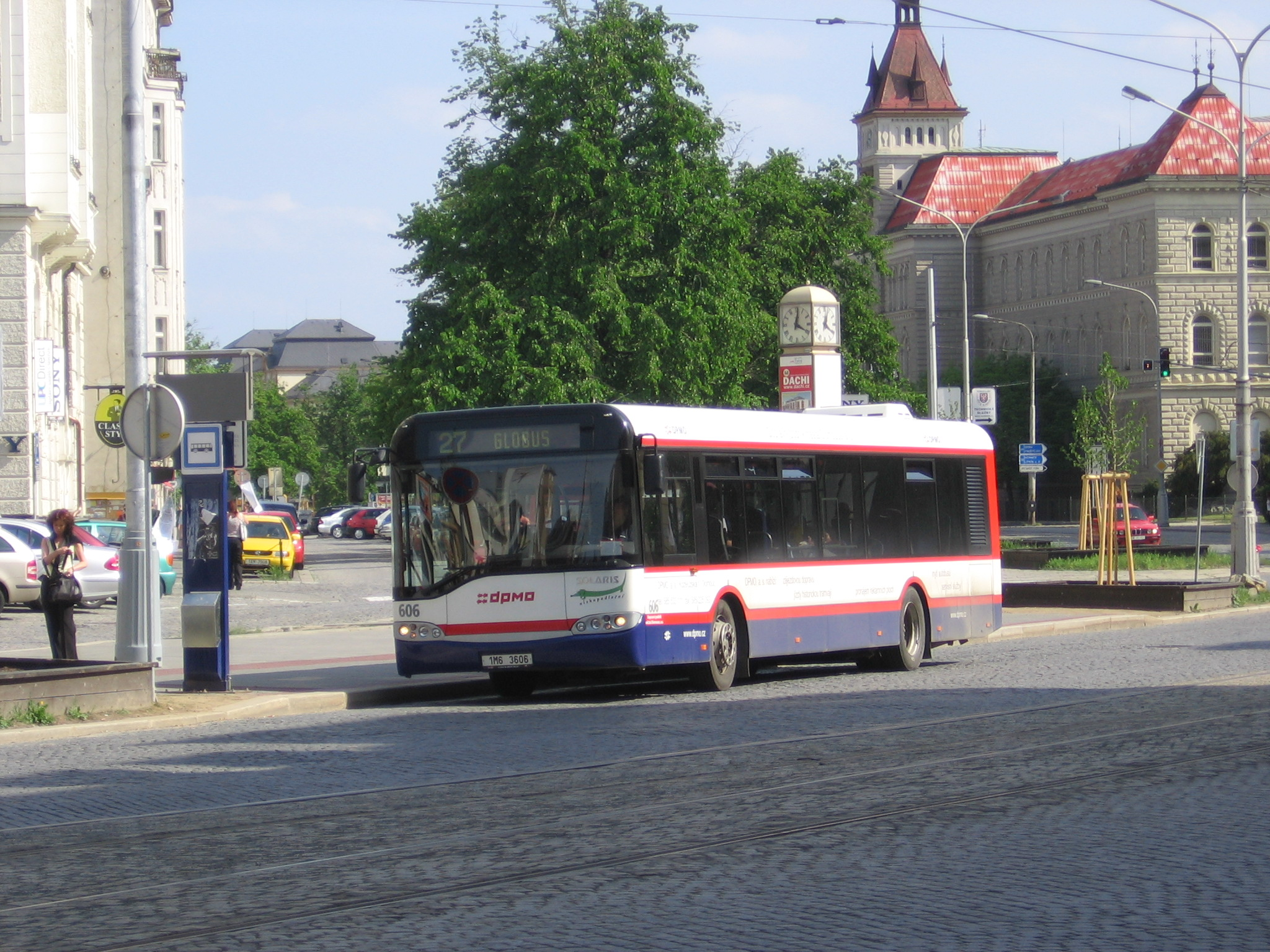 Solaris Urbino 12 Mk2 bus (#606) in Olomouc, Czech Republic. Built 2003, DP Olomouc operator.